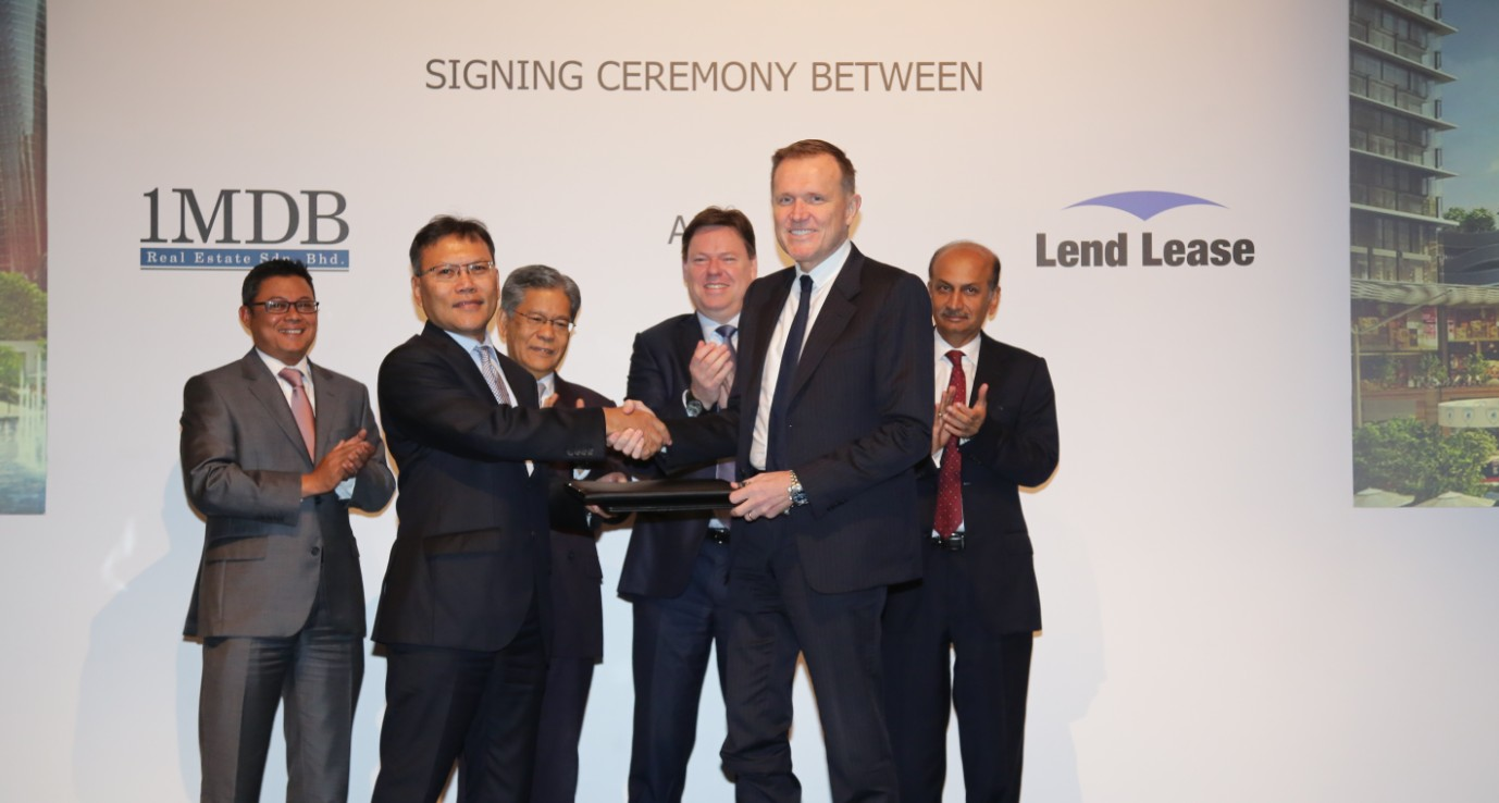 Lend Lease TRX signing ceremony